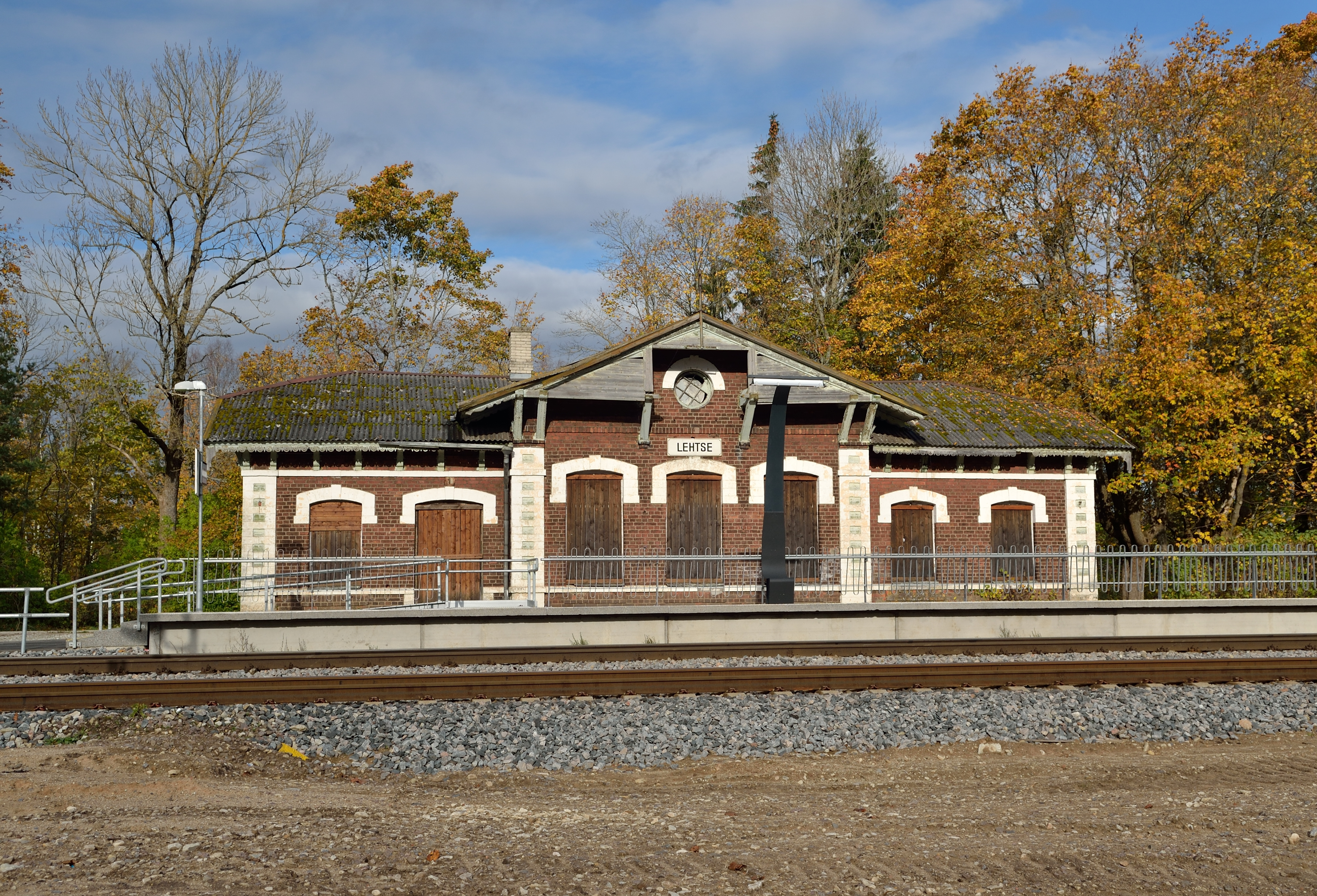 Lehtse railway station main building, built in 1897